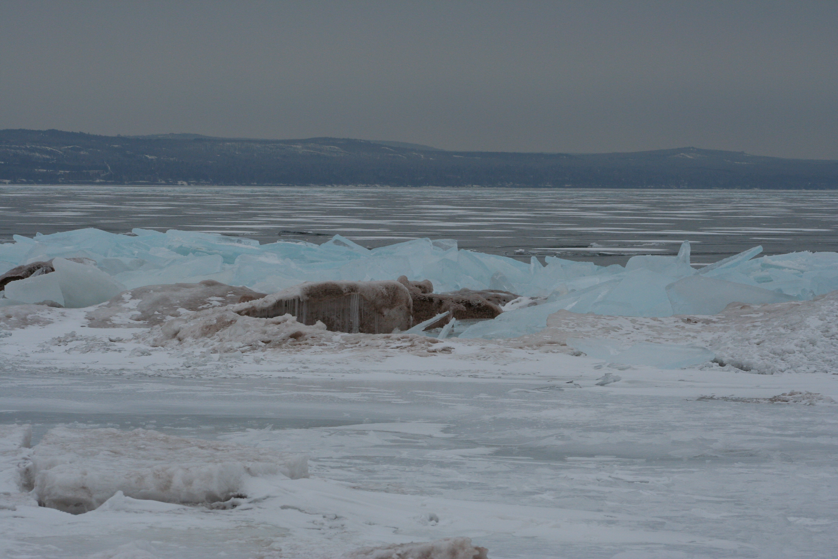 Ice on Lake Superior.